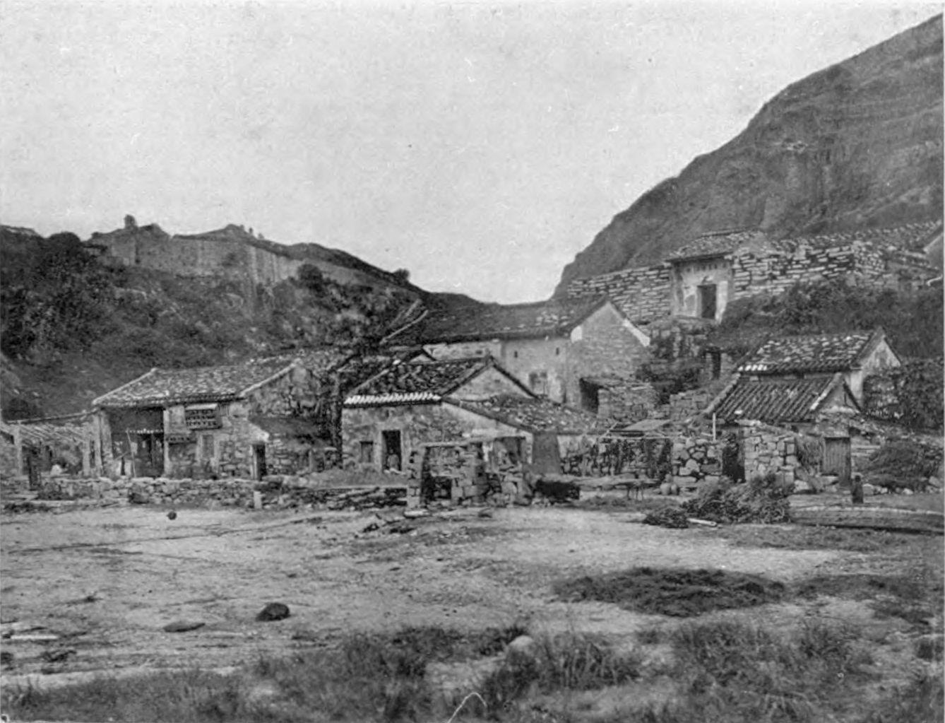 Chinese residences Ly Ee Mun - Hong Kong